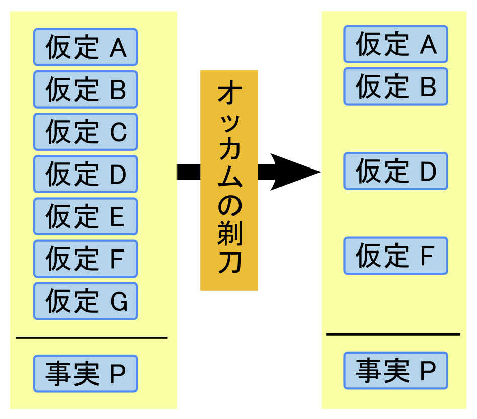 Schematic diagram of Ockham's razor in Japanese. I made diagram based on Toshihiko Miura "Ronrigaku ga wakaru jiten(Introduction to Logic)" ISBN 4534037104 pp.204-205